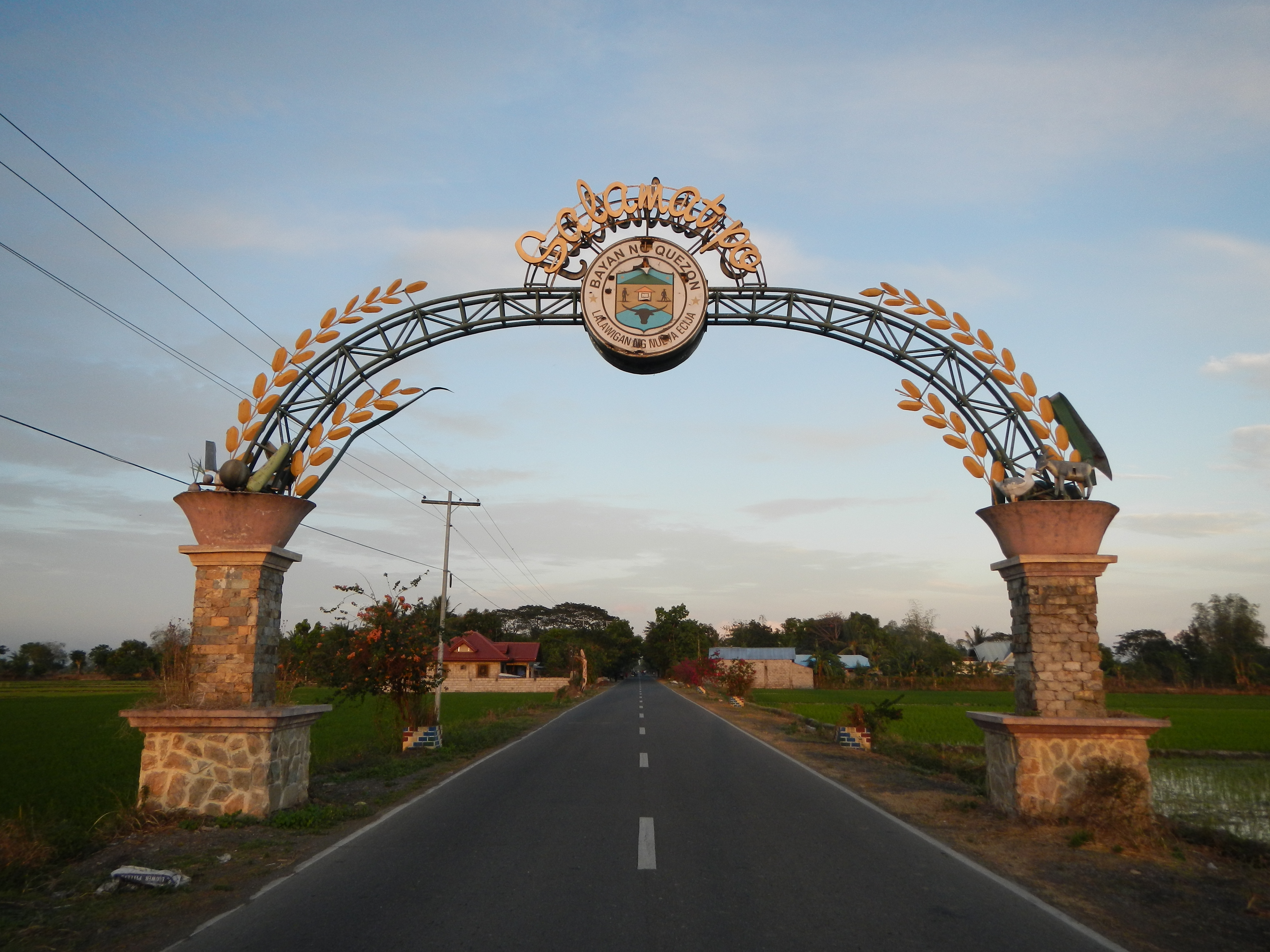 [1]Quezon, Nueva Ecija is a fourth class municipality in the province of Nueva Ecija, Philippines. According to the 2010 census, it has a population of 36,660 people.[2]